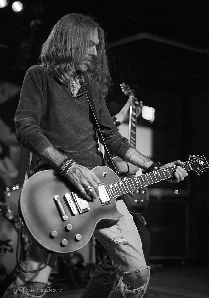 SHot in Nashville, July 14th, 2017